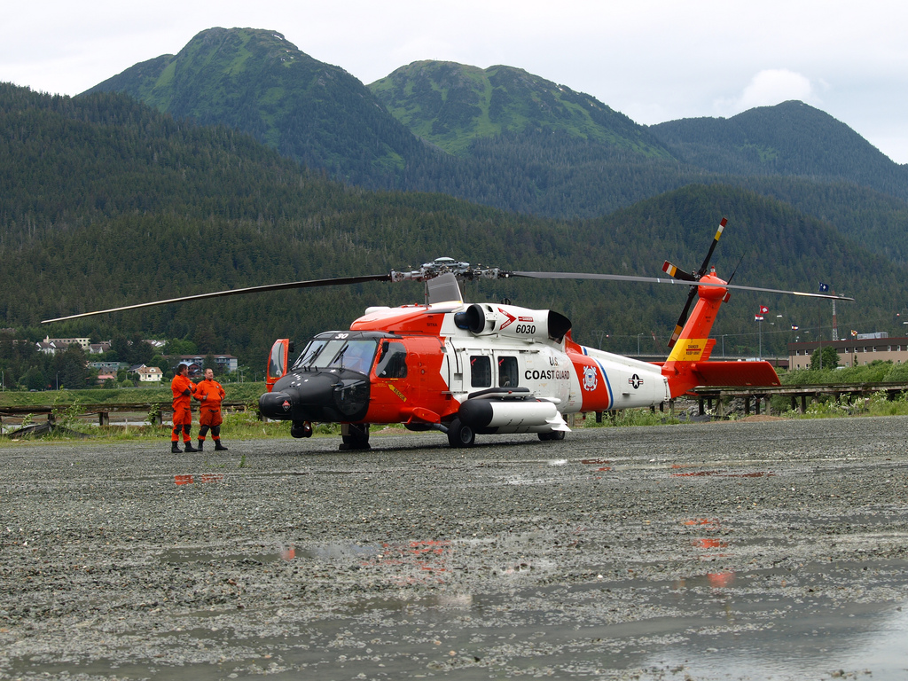 USCG MH-60T Jayhawk downtown Juneau, Alaska